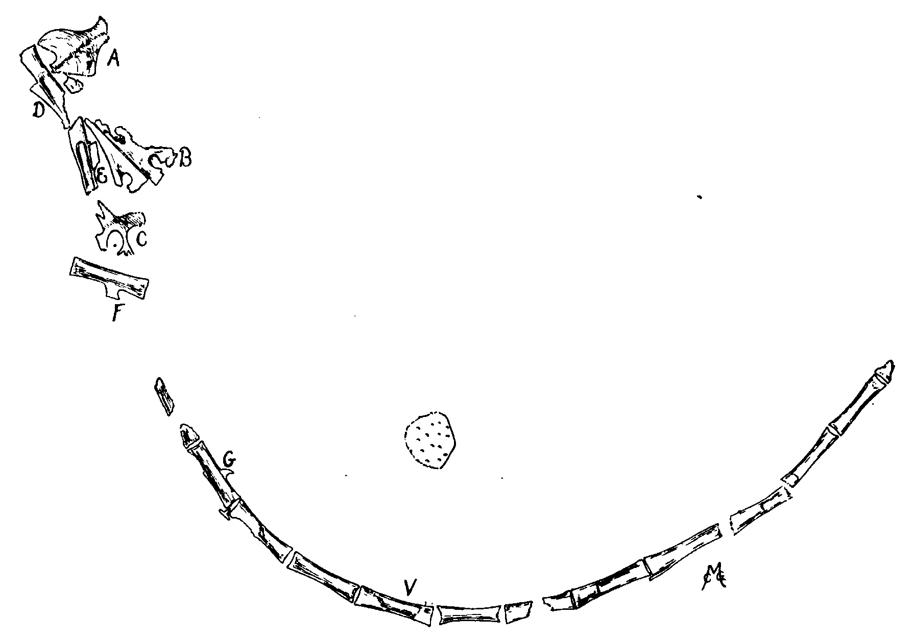 Interpretativee drawing of the tail and skull elements of the Podokesaurus holyokensis holotype.